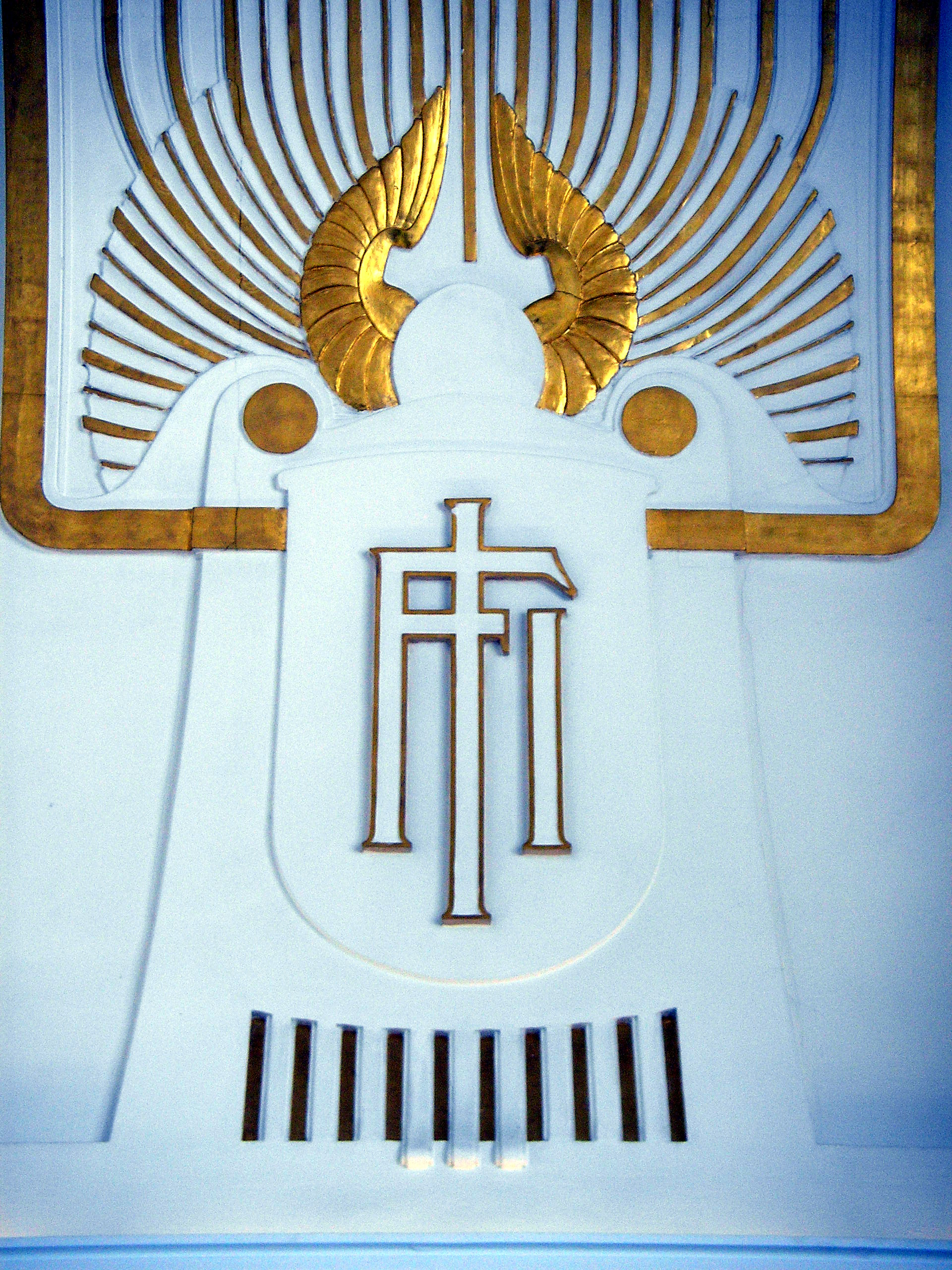 Karlsplatz Stadtbahn station (today U-Bahn in Vienna, constructed by Otto Wagner in the Jugendstil. Interior view with monogram of Emperor Franz Joseph I of Austria.